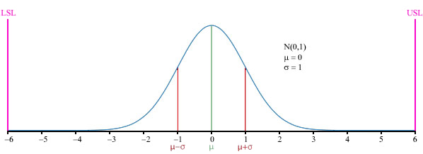 N(0,1) normal distribution curve, mean and standard deviation indicated graphically, x-axis extending to ±6, with upper and lower specification limits drawn at ±6